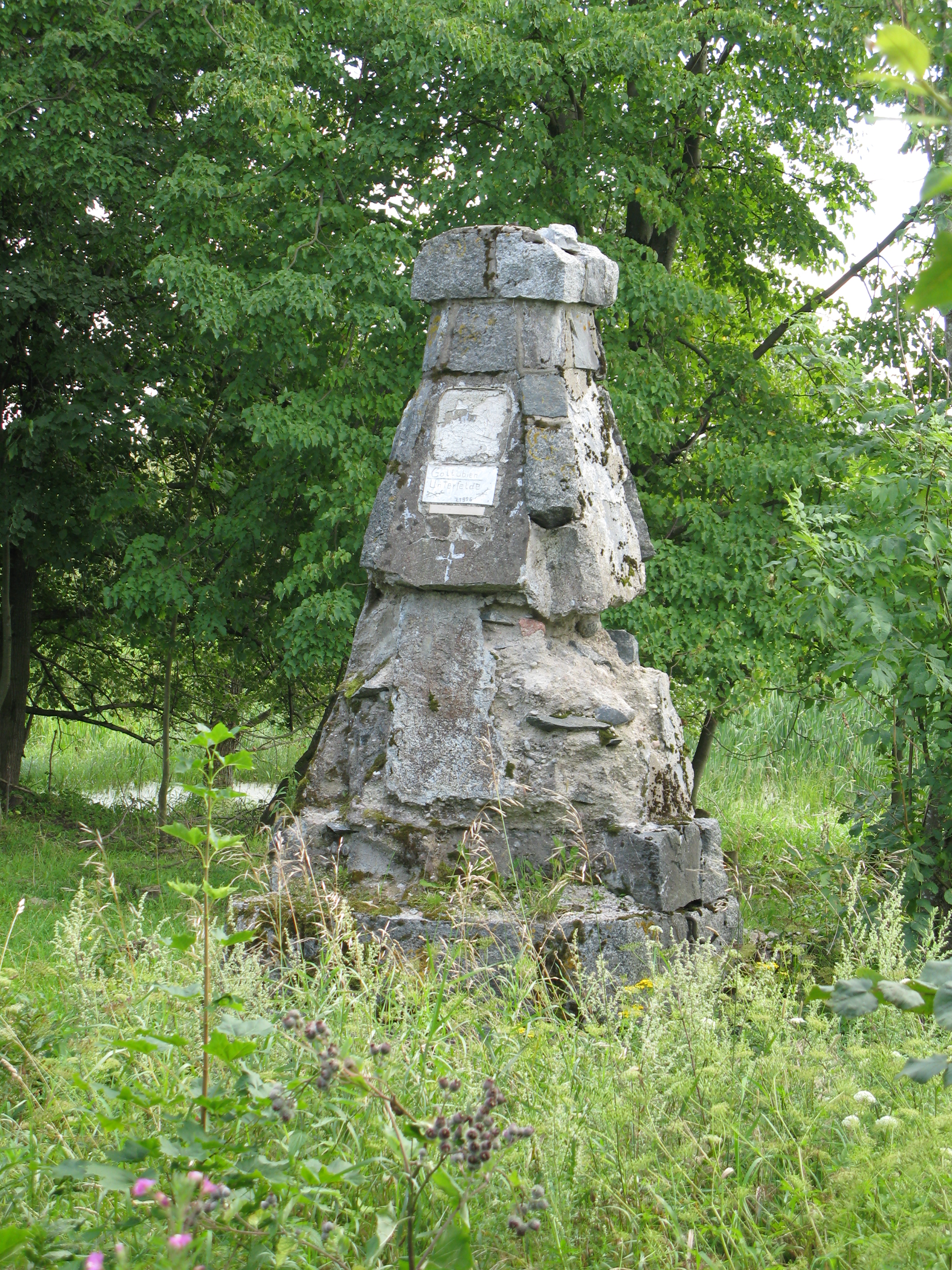 Munument in Golubie, destructed town, Poland, Suwalki region